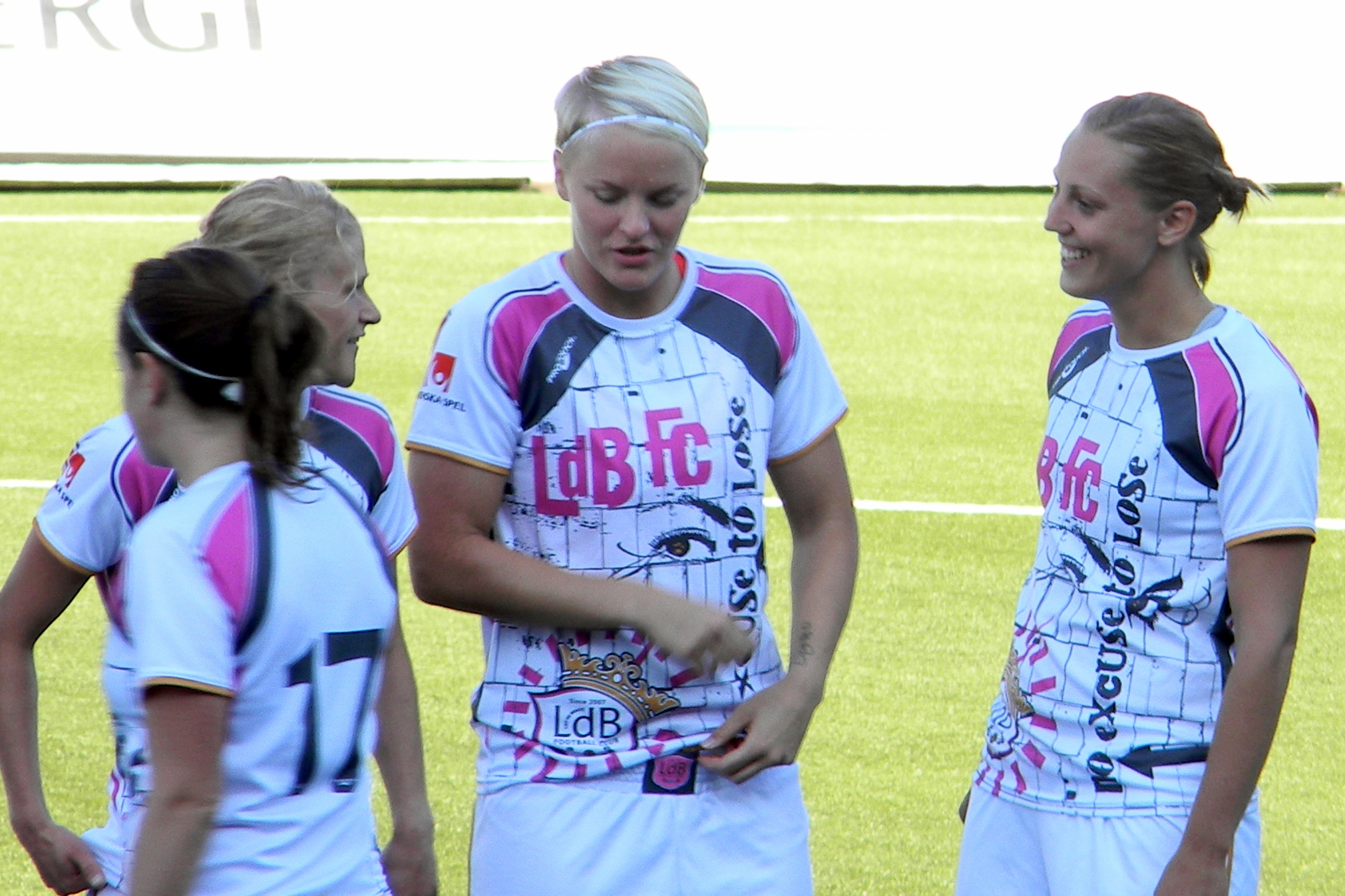 Nilla Fischer (in the center) from LdB FC Malmö with her teammates